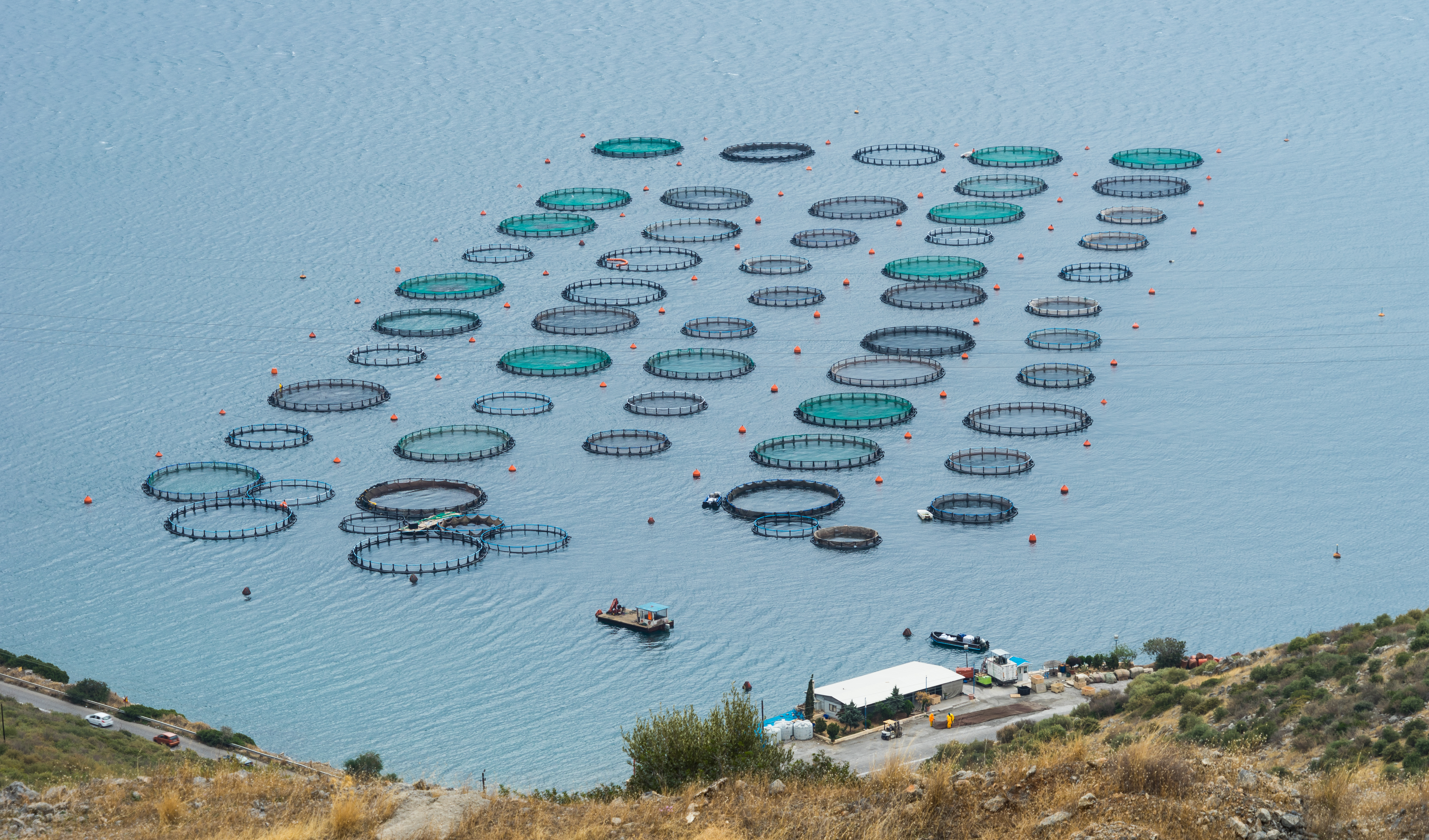 Fish farming near Amarynthos, Euboea, Greece.